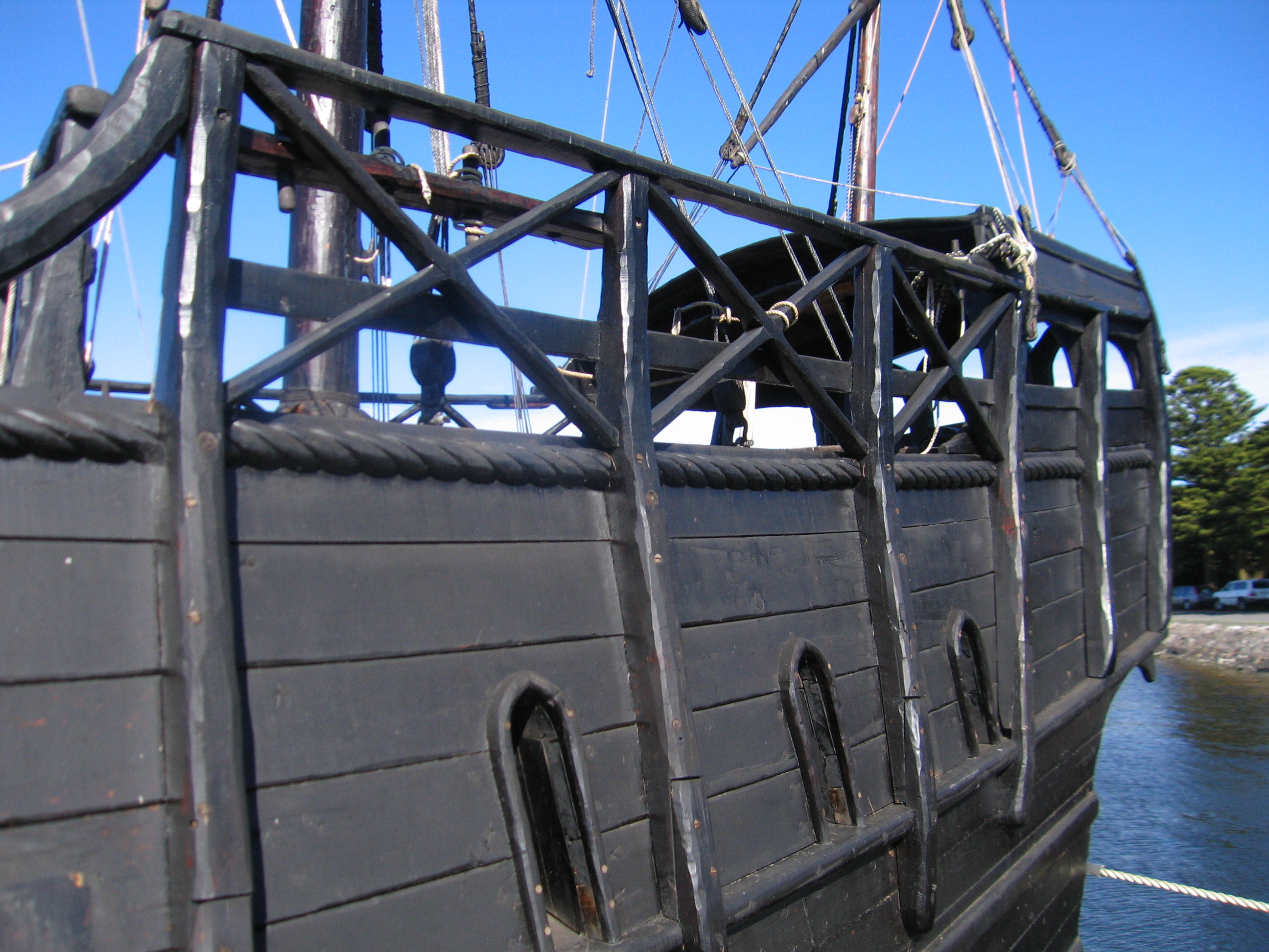 View of Notorious, the replica caravel, looking aft, taken at Port Fairy, Victoria, Australia